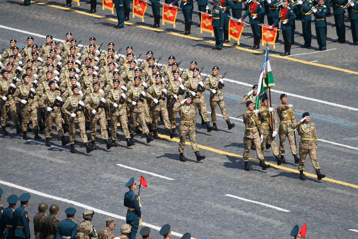 Парад Победы в Москве, посвященный 75-й годовщине Победы в Великой Отечественной войне